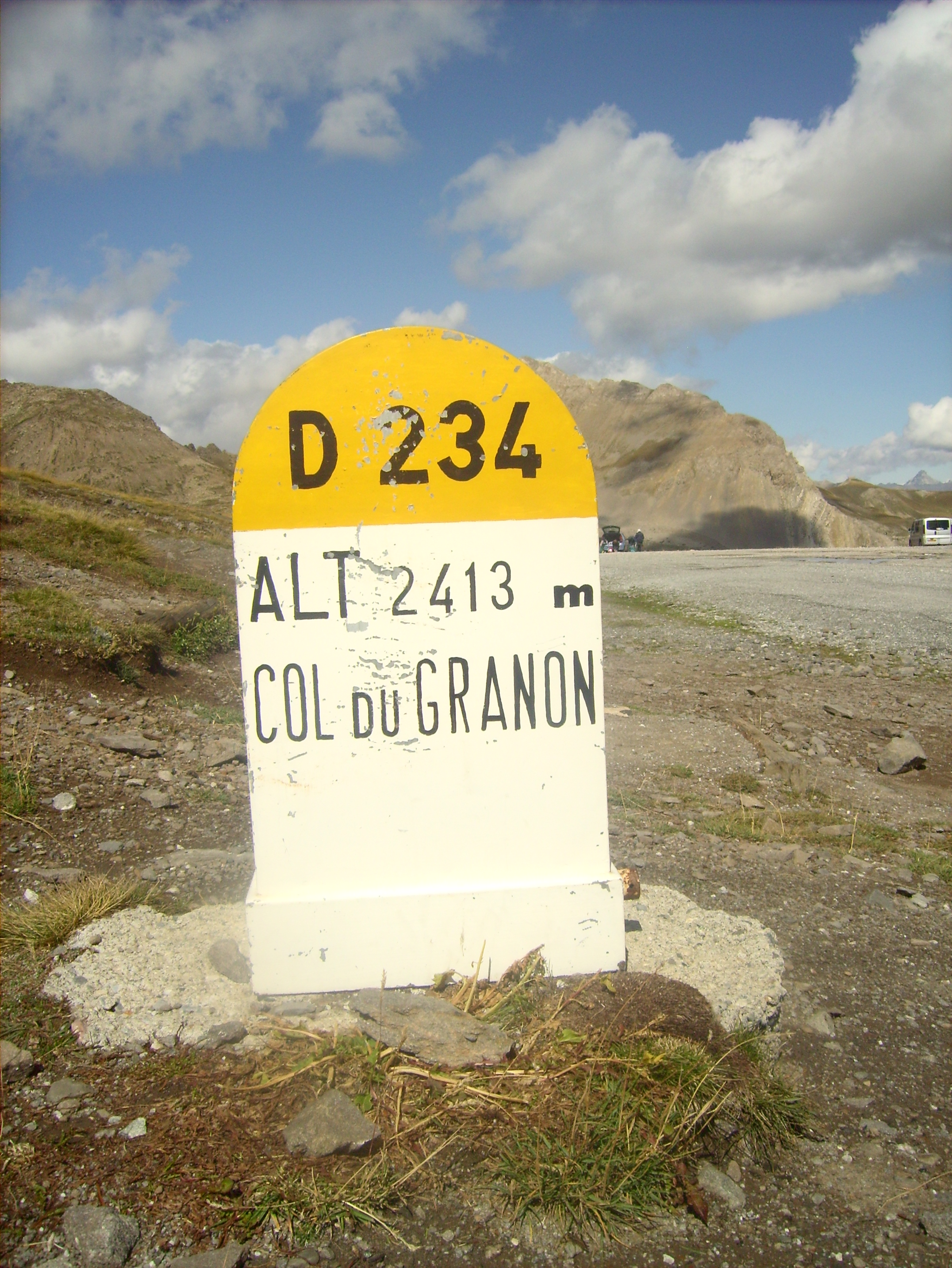 Col du Granon, Hautes-Alpes, France.